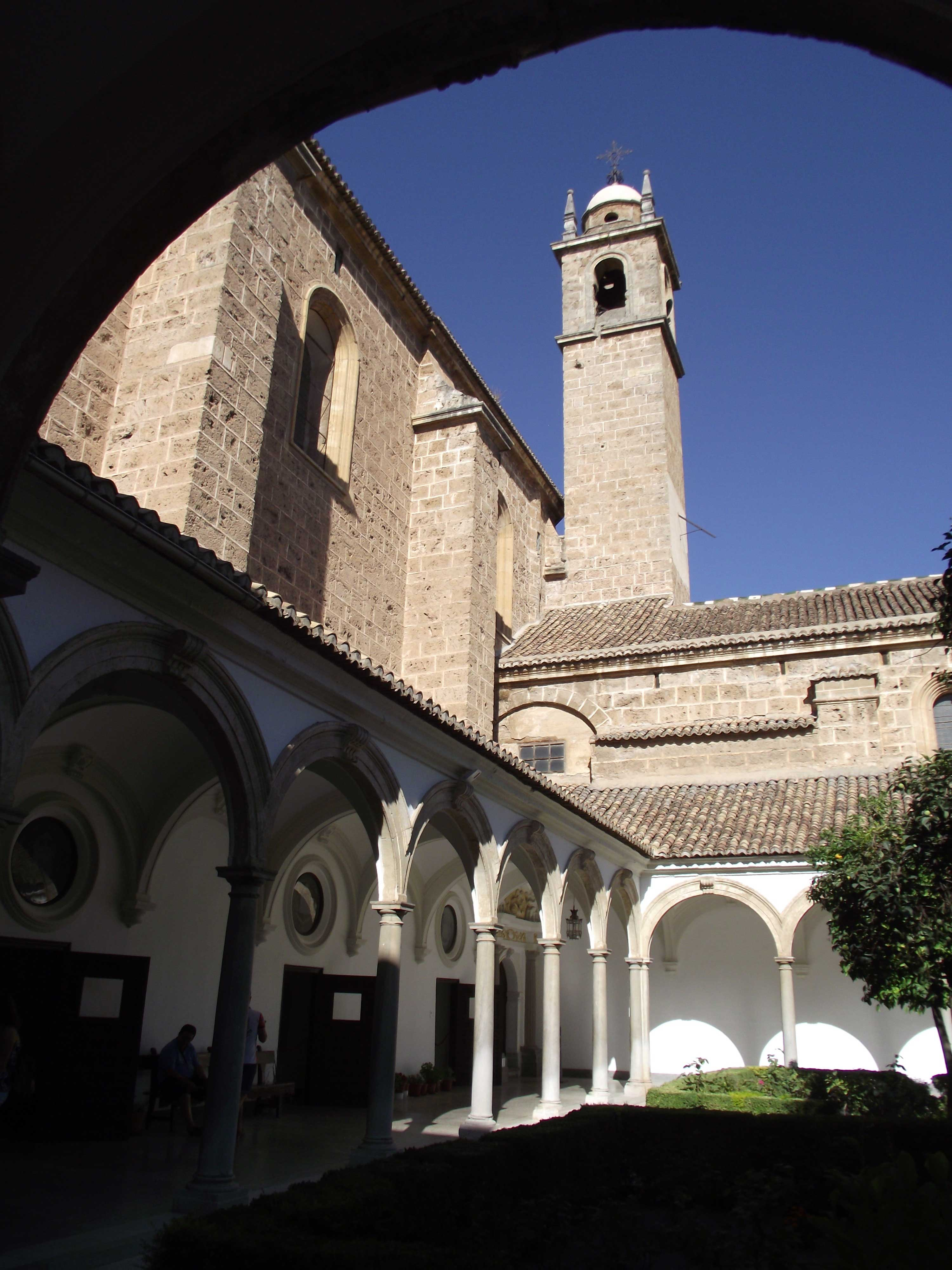 Charterhouse of Granada, XVI-XVIII Century